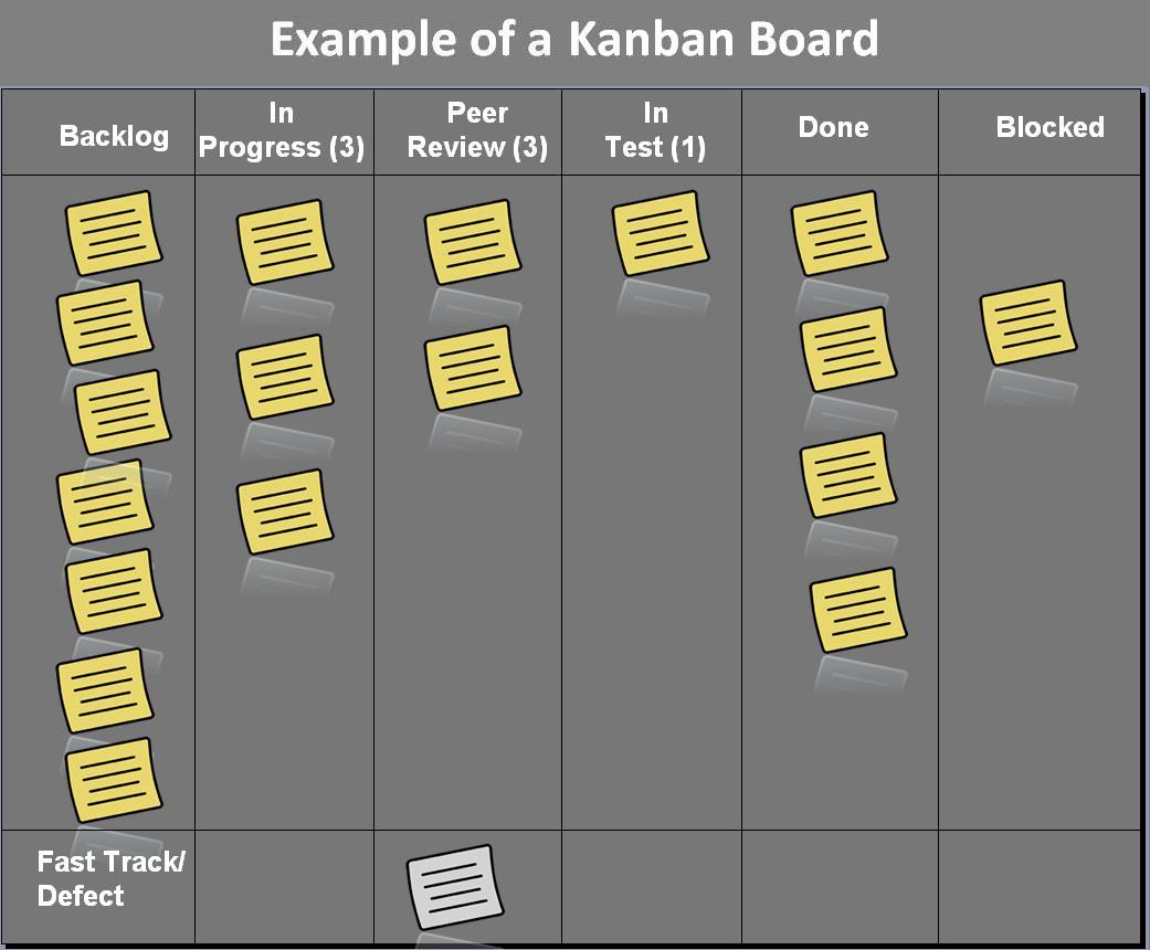 Example of a Kanban board